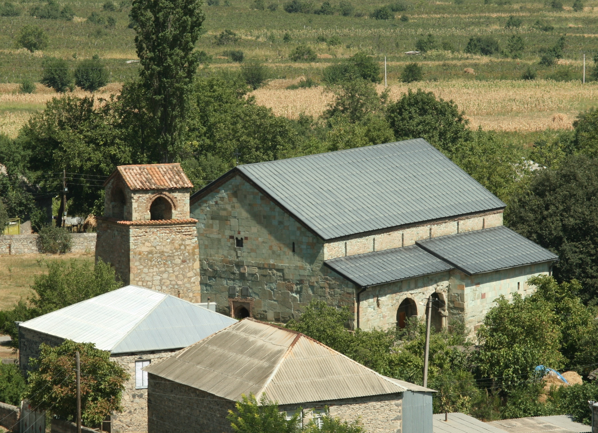 Bolnisis Sioni in Bolnisi village